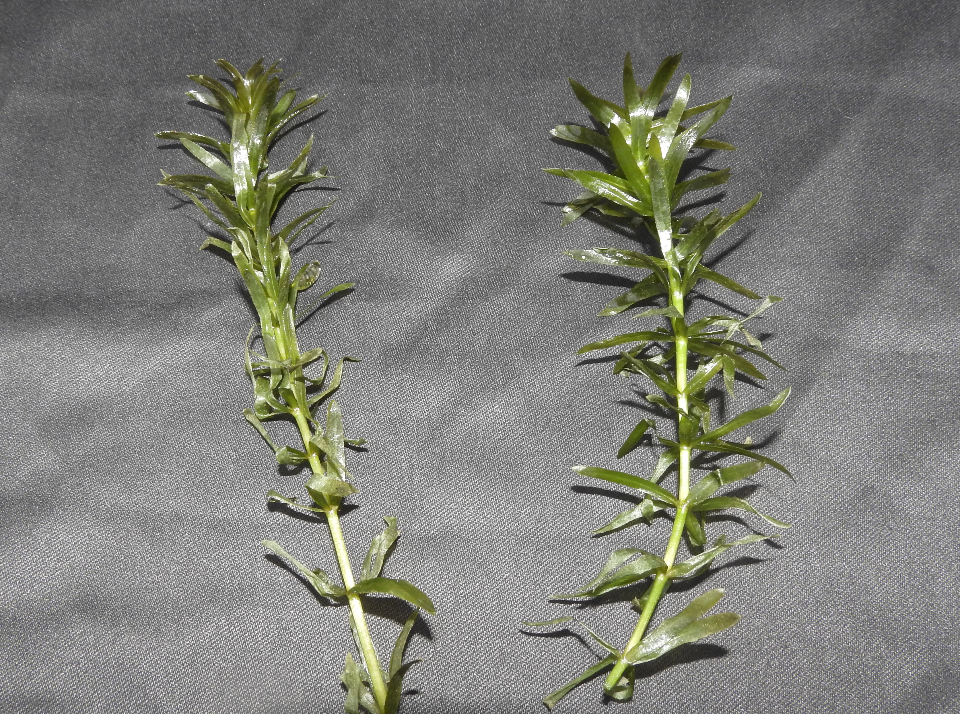 Hydrocharitaceae-aquatic herb.